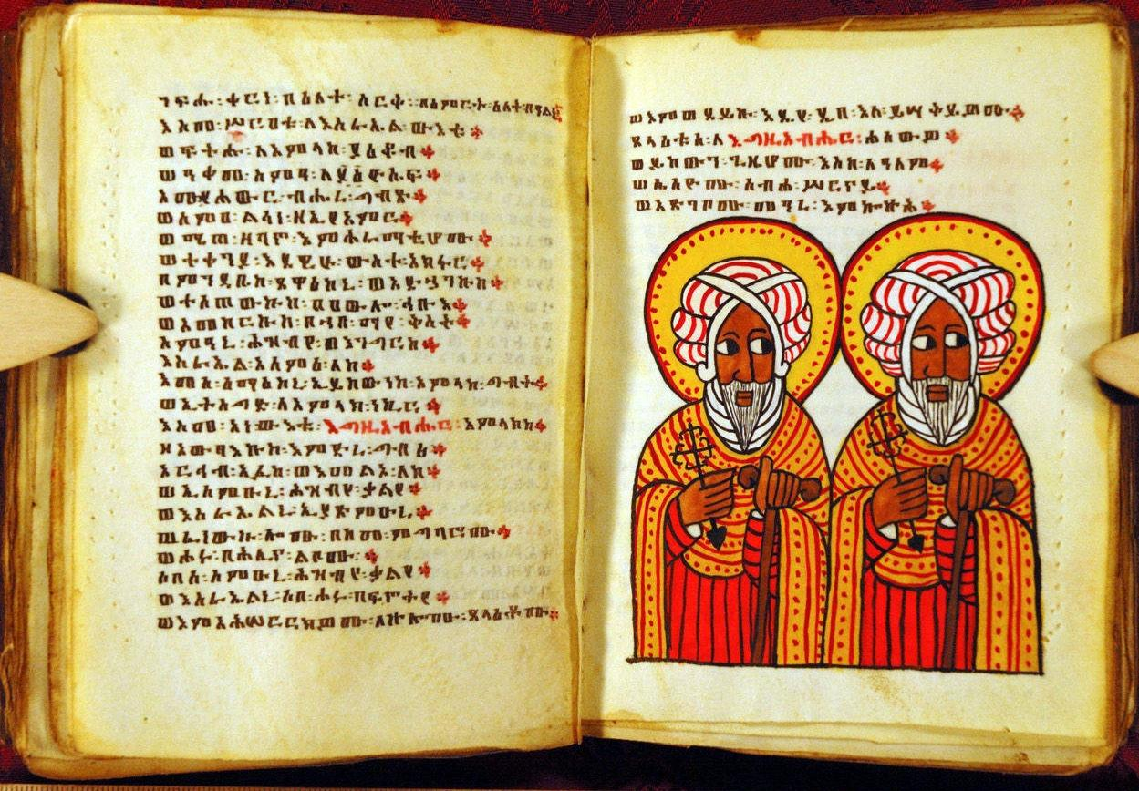 University of Oregon Museum of Natural and Cultural History, Shelf Mark 10-844 - Ethiopian biblical manuscript